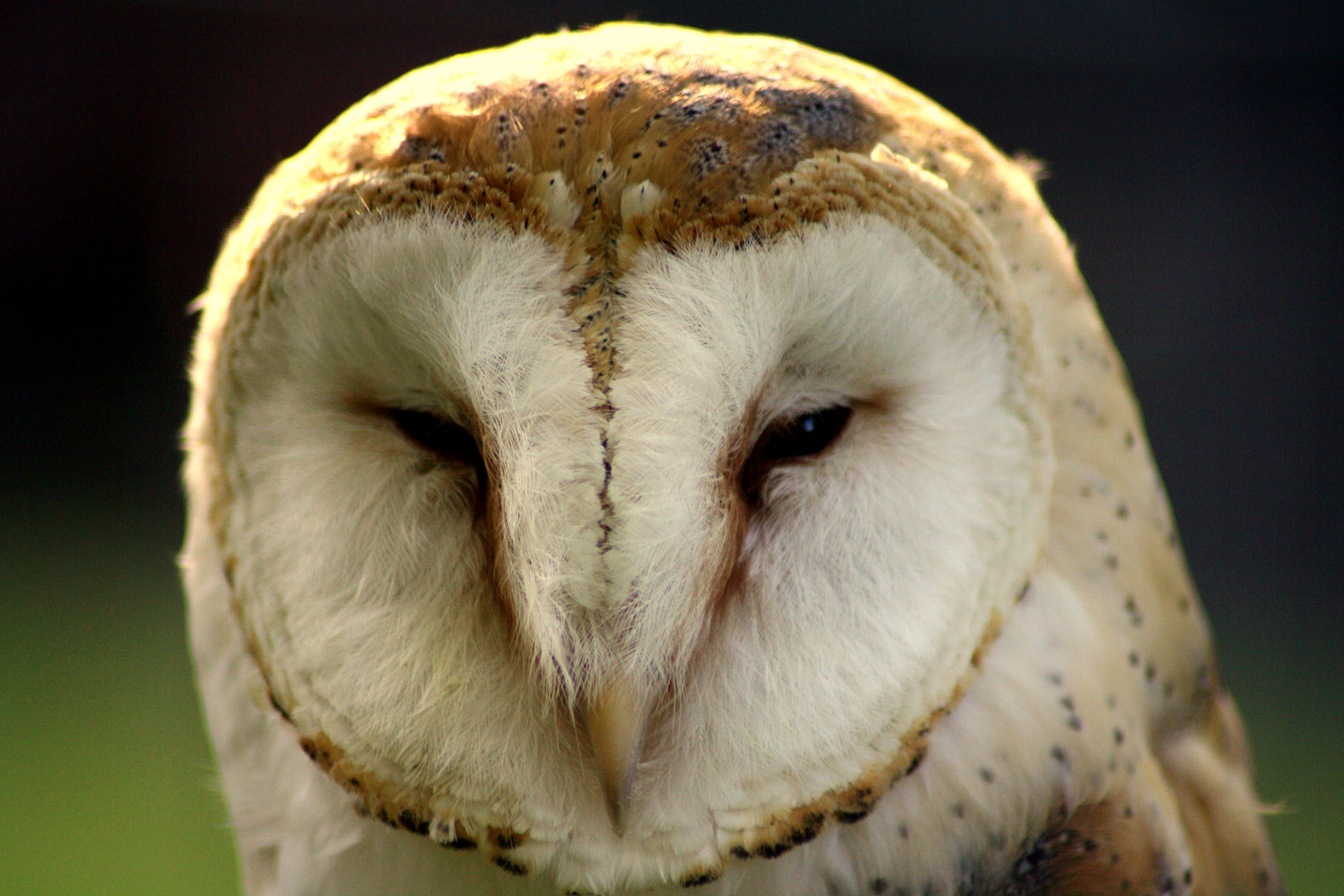 Barn Owl (Tyto alba) Location: Schutterspark Brunssum (Netherlands)